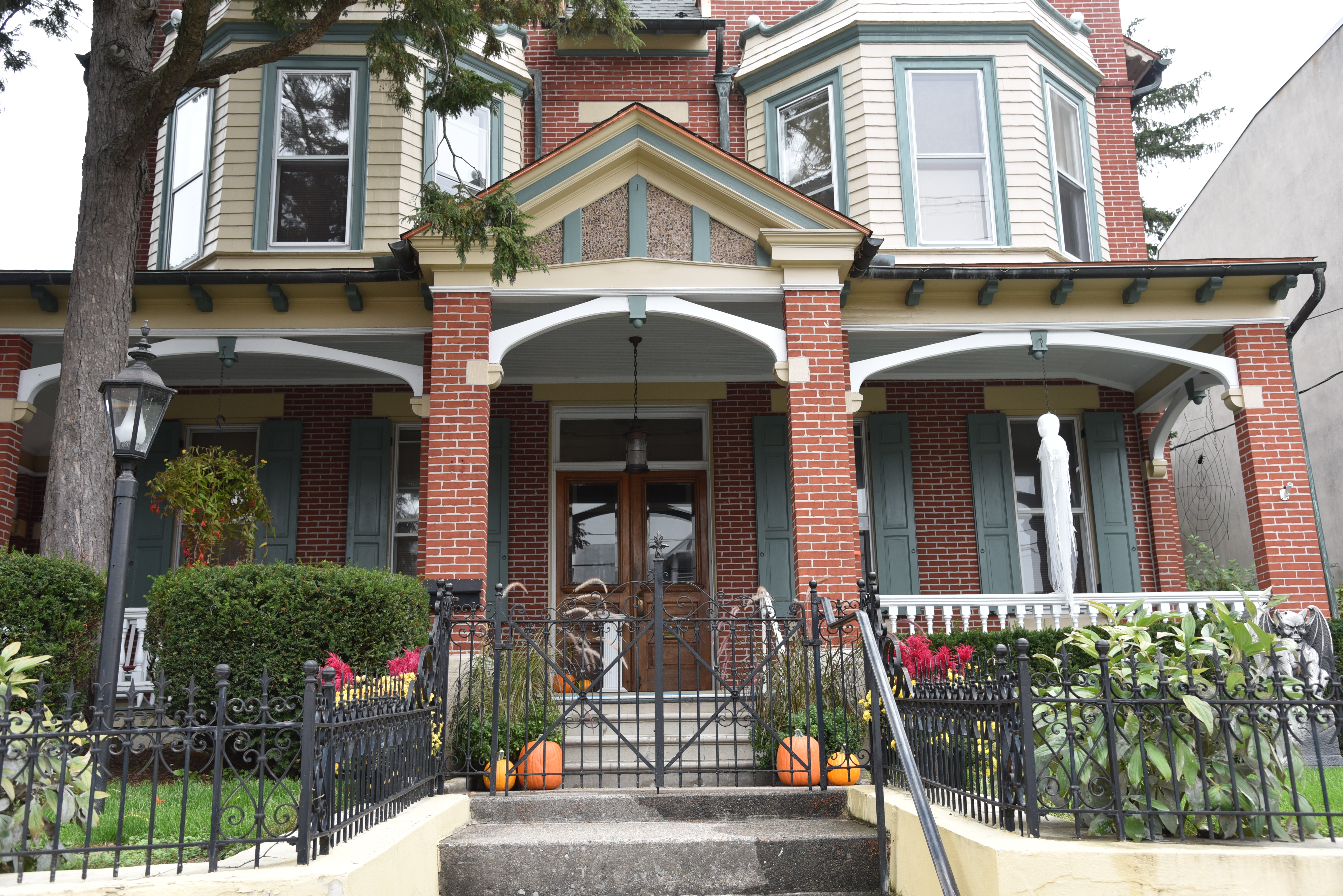 Home built by Wilson Schmick, original owner of Hamburg Broom Works.